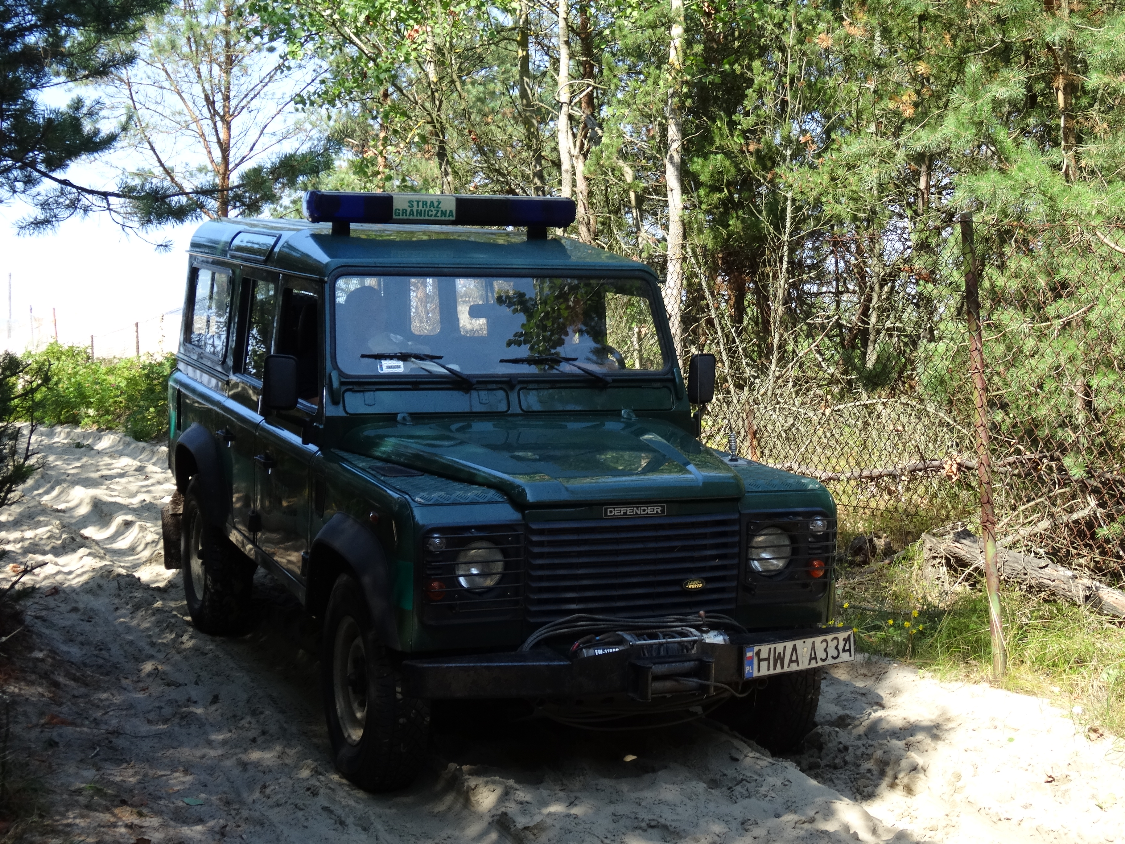 Polish Border Guard at Polish-Russian state border, Mierzeja Wiślana. Land Rover Defender.